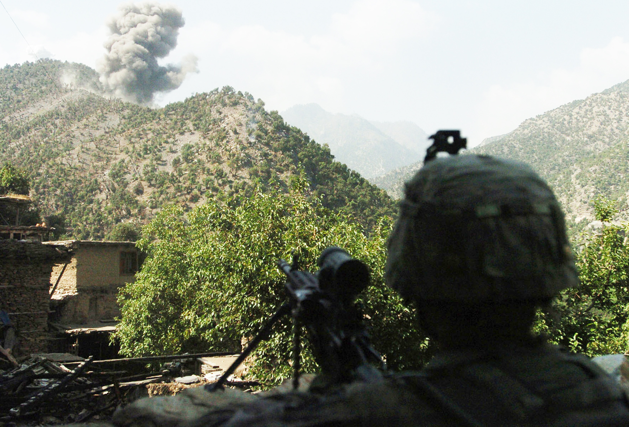 A U.S. Army Soldier watches as Air Force F-15E Strike Eagles bomb insurgent positions after a 20-minute gun battle in the Korengal Valley of Afghanistan's Kunar Province Aug. 13. U.S. servicemembers from Company B, 2nd Battalion, 12th Infantry Regiment, 4th Brigade Combat Team, 4th Infantry Division, routinely engage insurgents in the volatile valley. International Security Assistance Force troops across Afghanistan have increased operations in recent months, in order to ensure safety and security during Afghanistan's second national election, scheduled for the end of August. (U.S. Army photo/Sgt. Matthew Moeller)